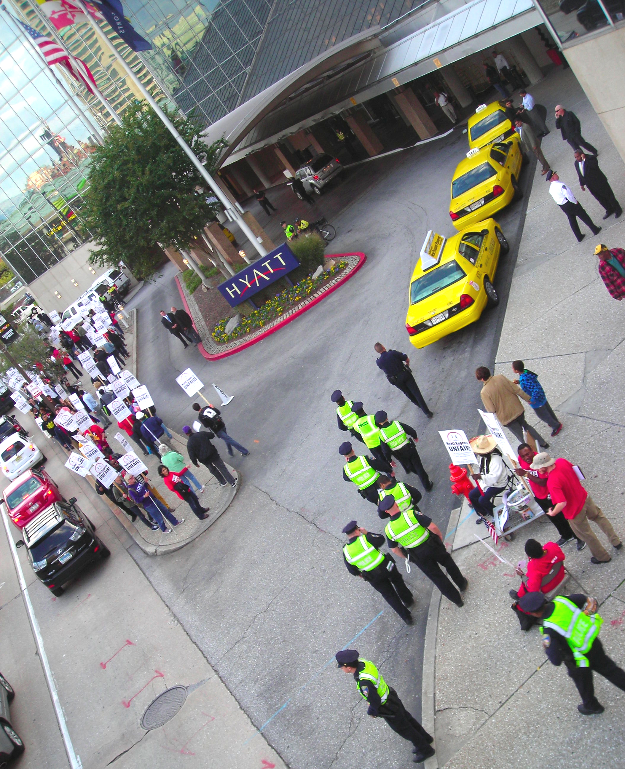 On Light Street outside the Hyatt Regency Hotel in Baltimore's Inner Harbor. Police arrive as workers picket the hotel from a strip of public sidewalk.